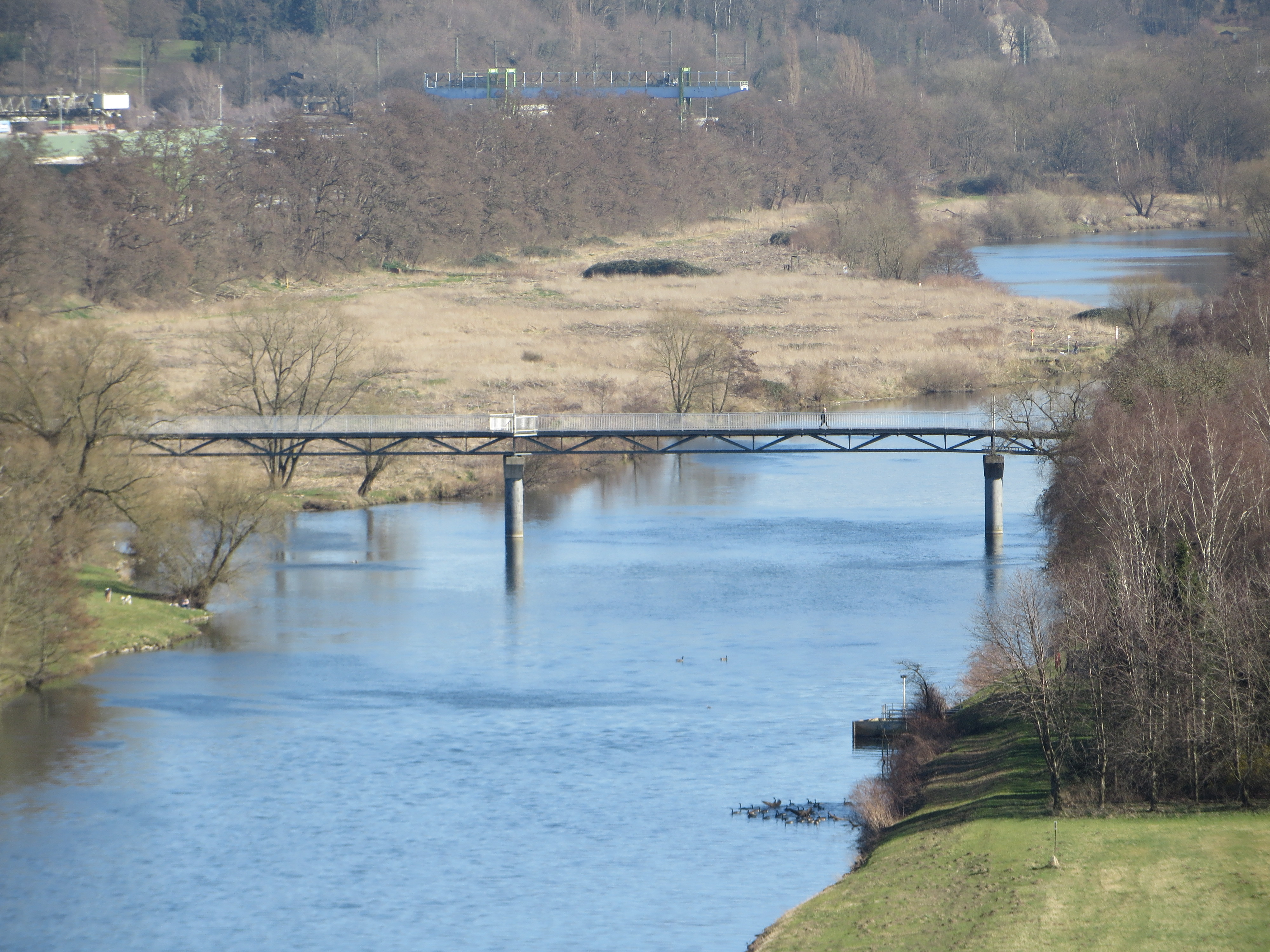 Bridge Nachtigallbrücke in Witten, Germany